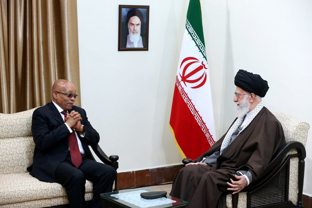 Jacob Zuma, the President of South Africa and his entourage met with Ali Khamenei, the Supreme Leader of Iran, in his house.